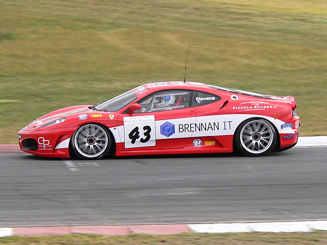 2006 Australian GT Championship season Ferrari 430 Challenge race car number 43 driven by David Stevens during Round 5 at Mallala Motor Sport Park